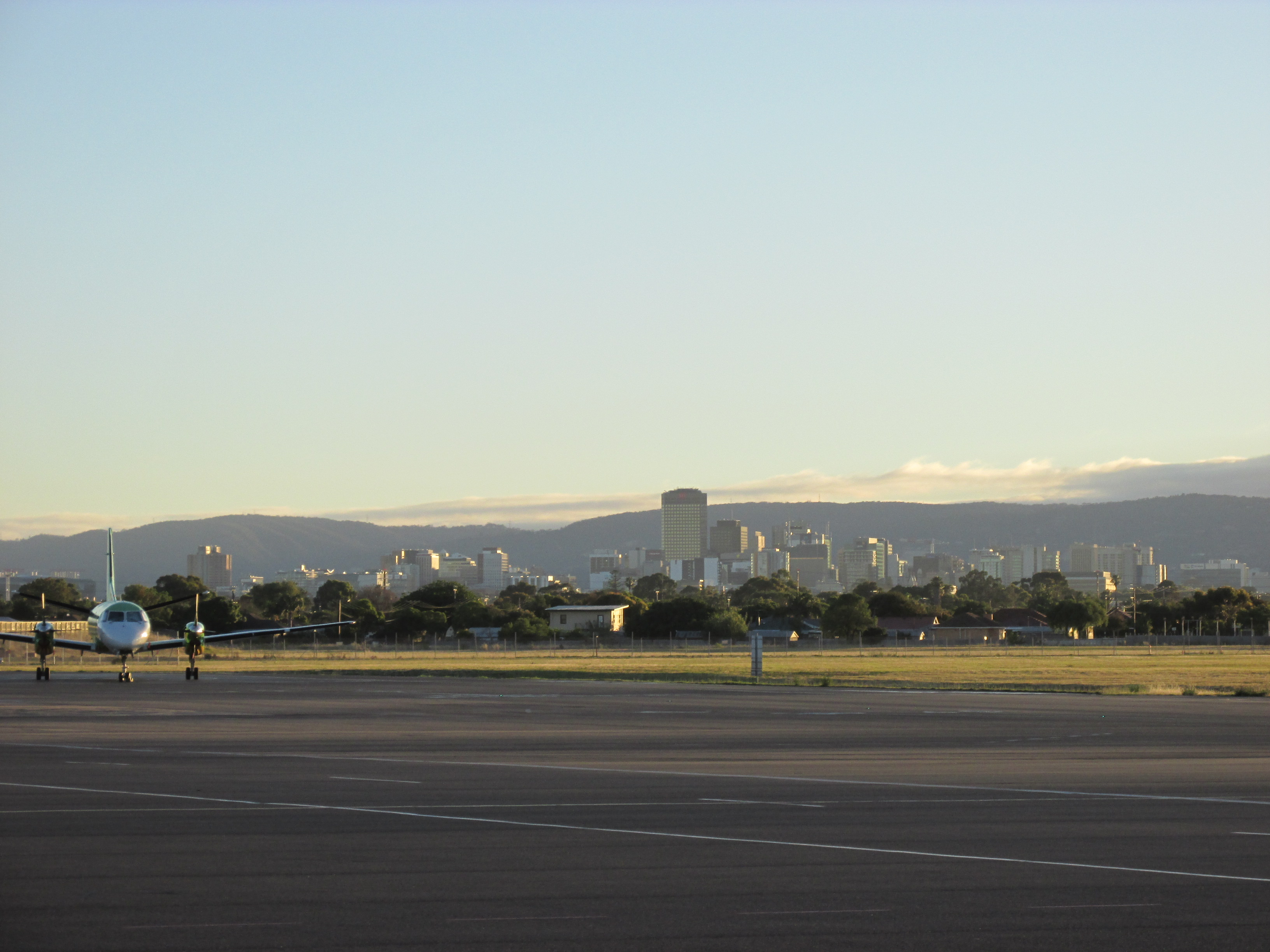 View of Adelaide CBD from the Adelaide Airport.